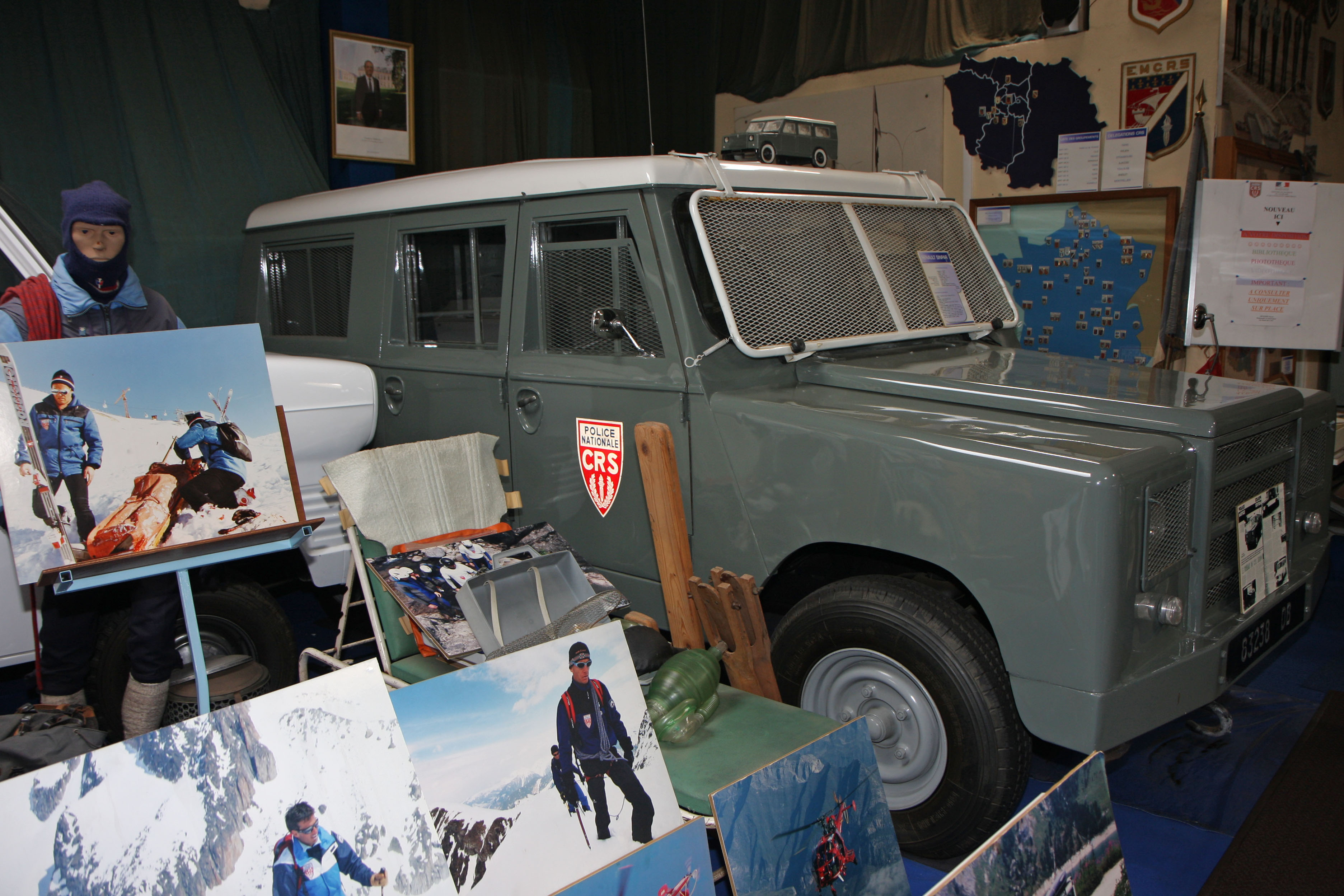 French CRS van - 1960's - CRS museum